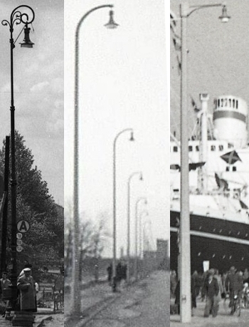 Polish street lights dated interbellum period 1918-1939.